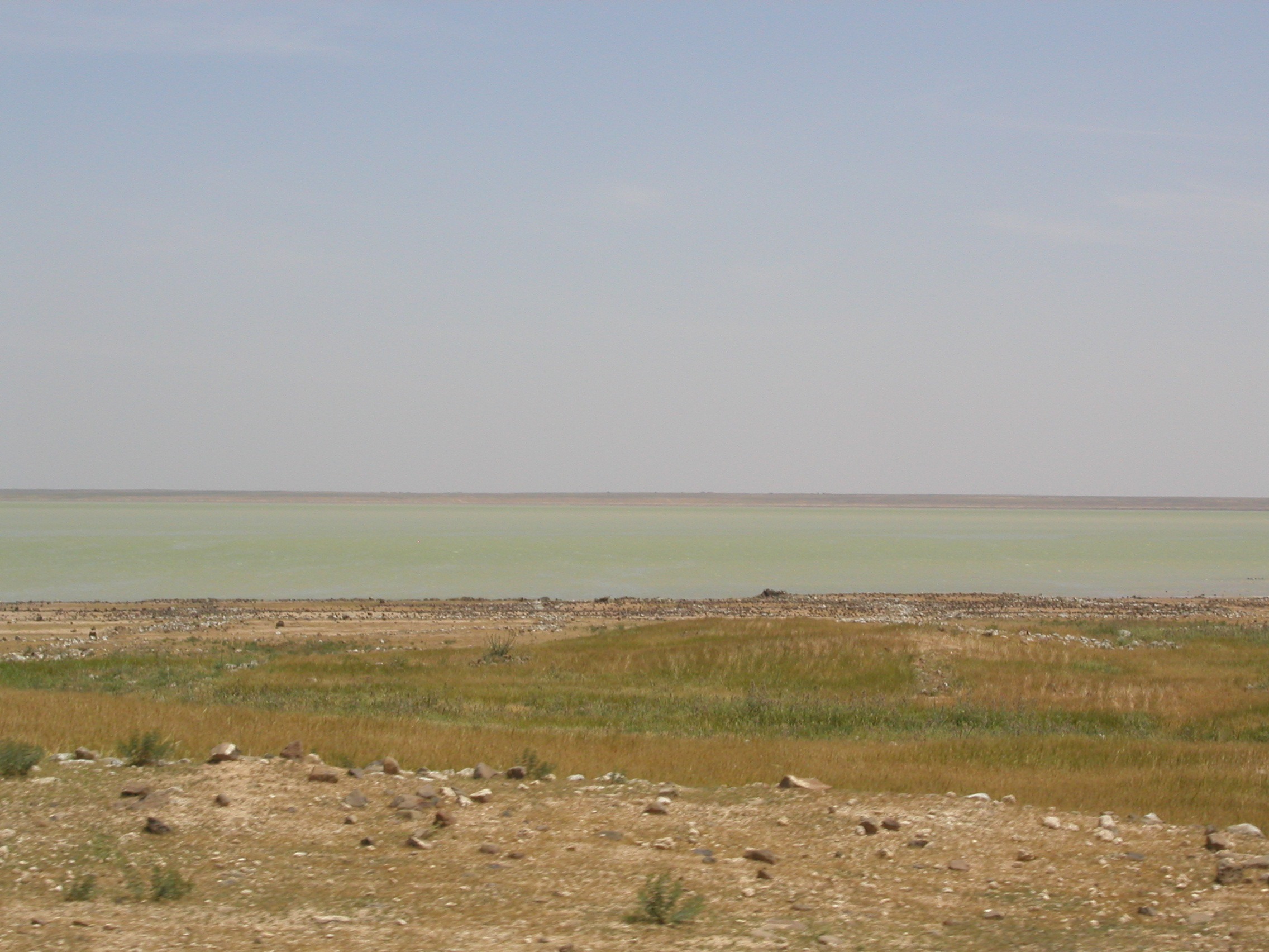 Jabbul lake (facing north) in August